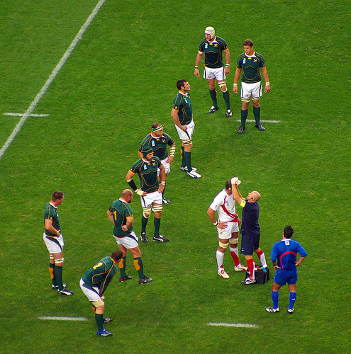 South Africa - England Rugby World Cup 2007 Saint Denis. Stade de France Victor Matfield Os Du Randt Bakkies Botha etc.